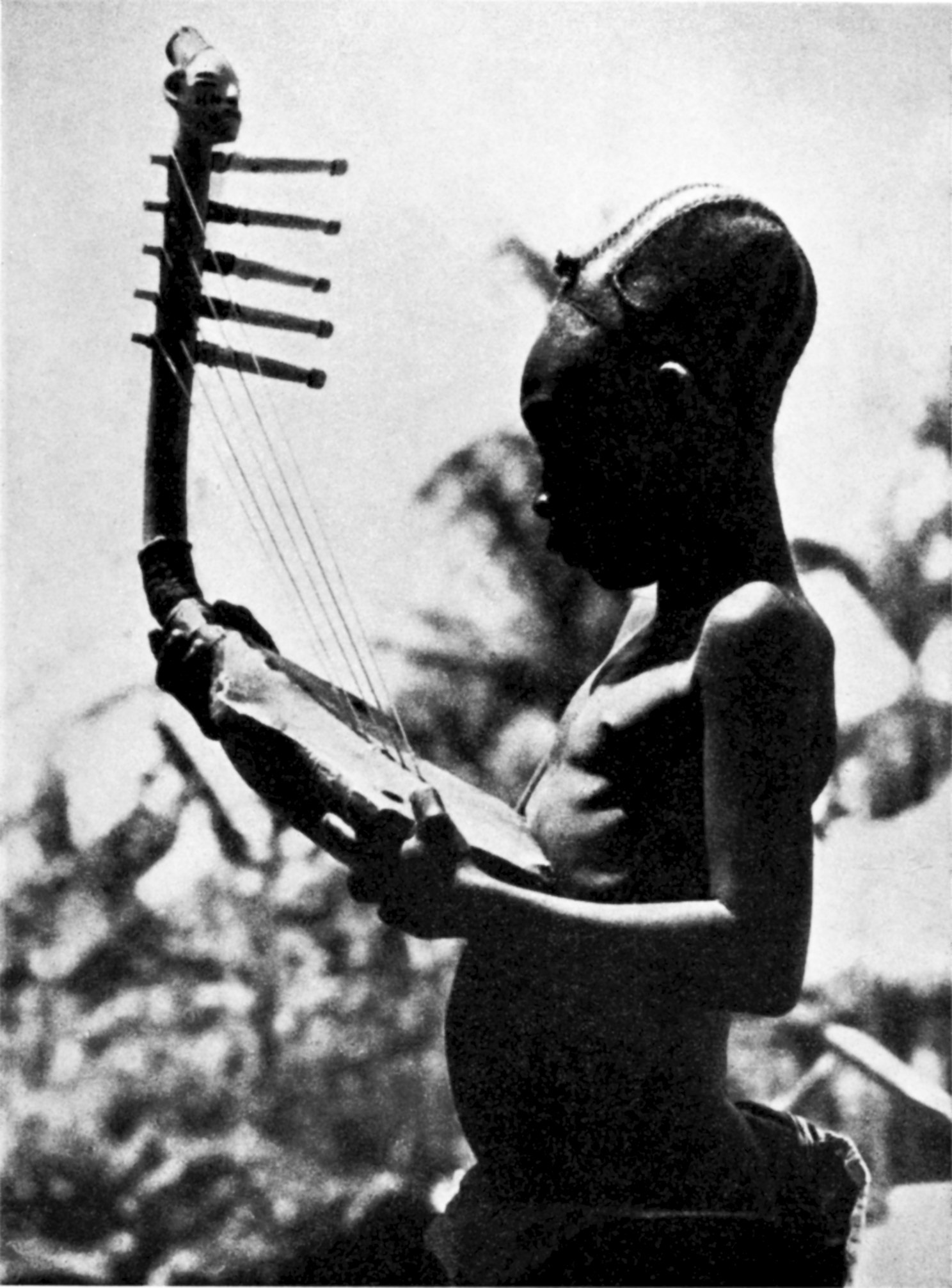 A Mangbetu boy playing an instrument.